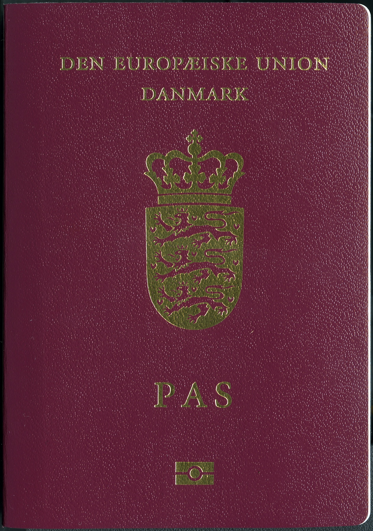 Self-scanned image of a Danish passport cover.